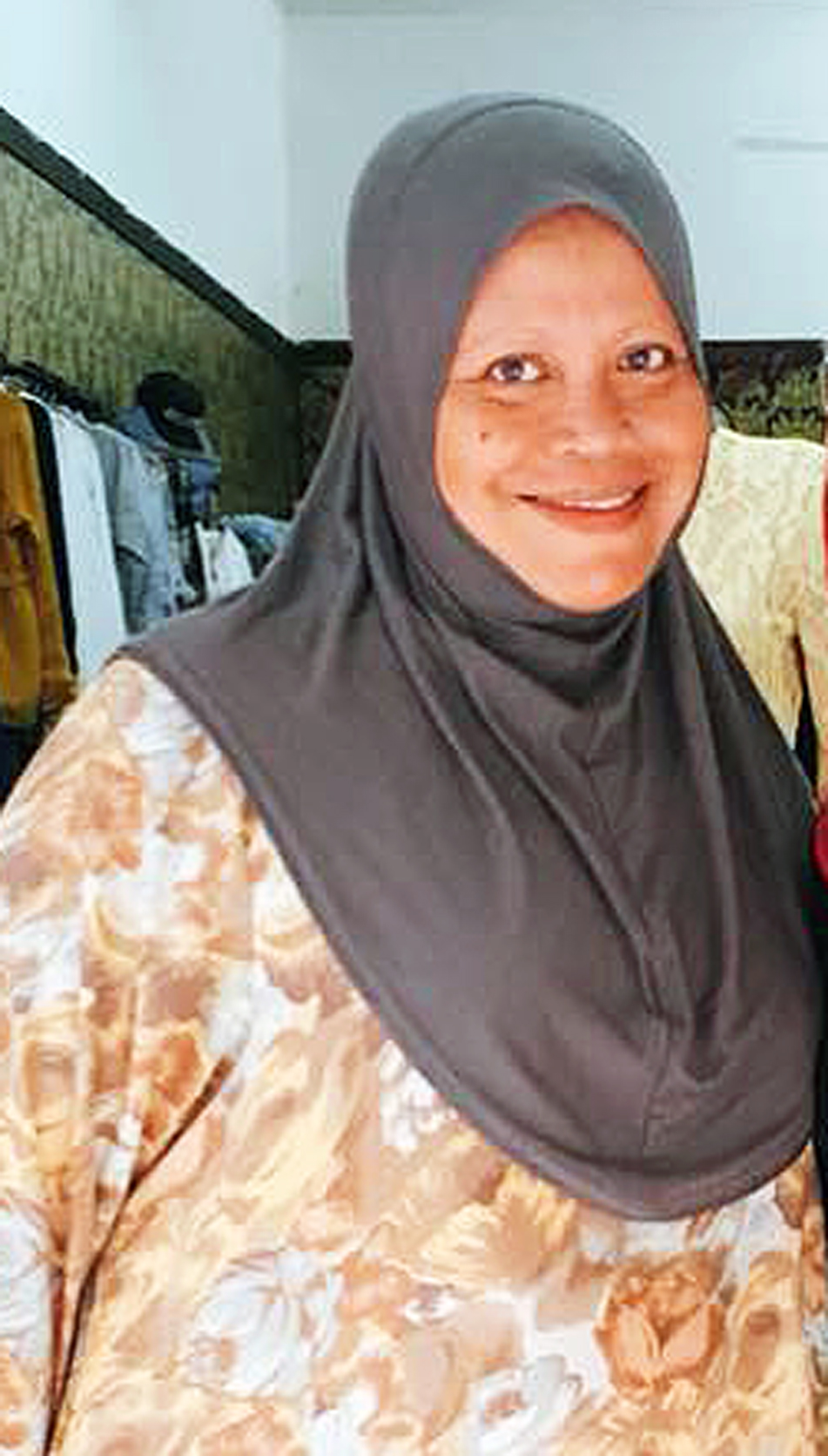 Pitcure was taken at Ipoh, Perak